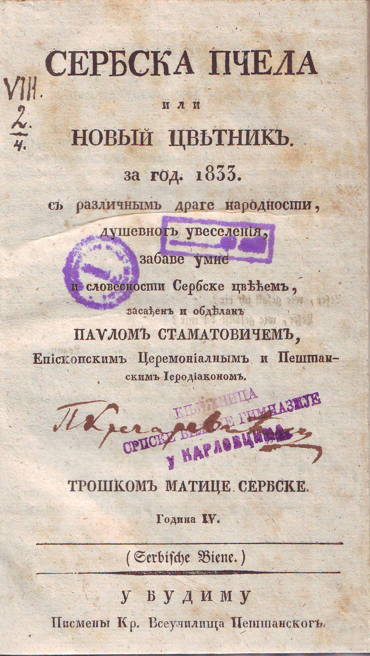 The front page of the 1833 edition of the Serbska pčela ili Novi cvetnik almanac. Srpski (latinica): Naslovna strana izdanja almanaha Serbska pčela ili Novi cvetnik za 1833. godinu.